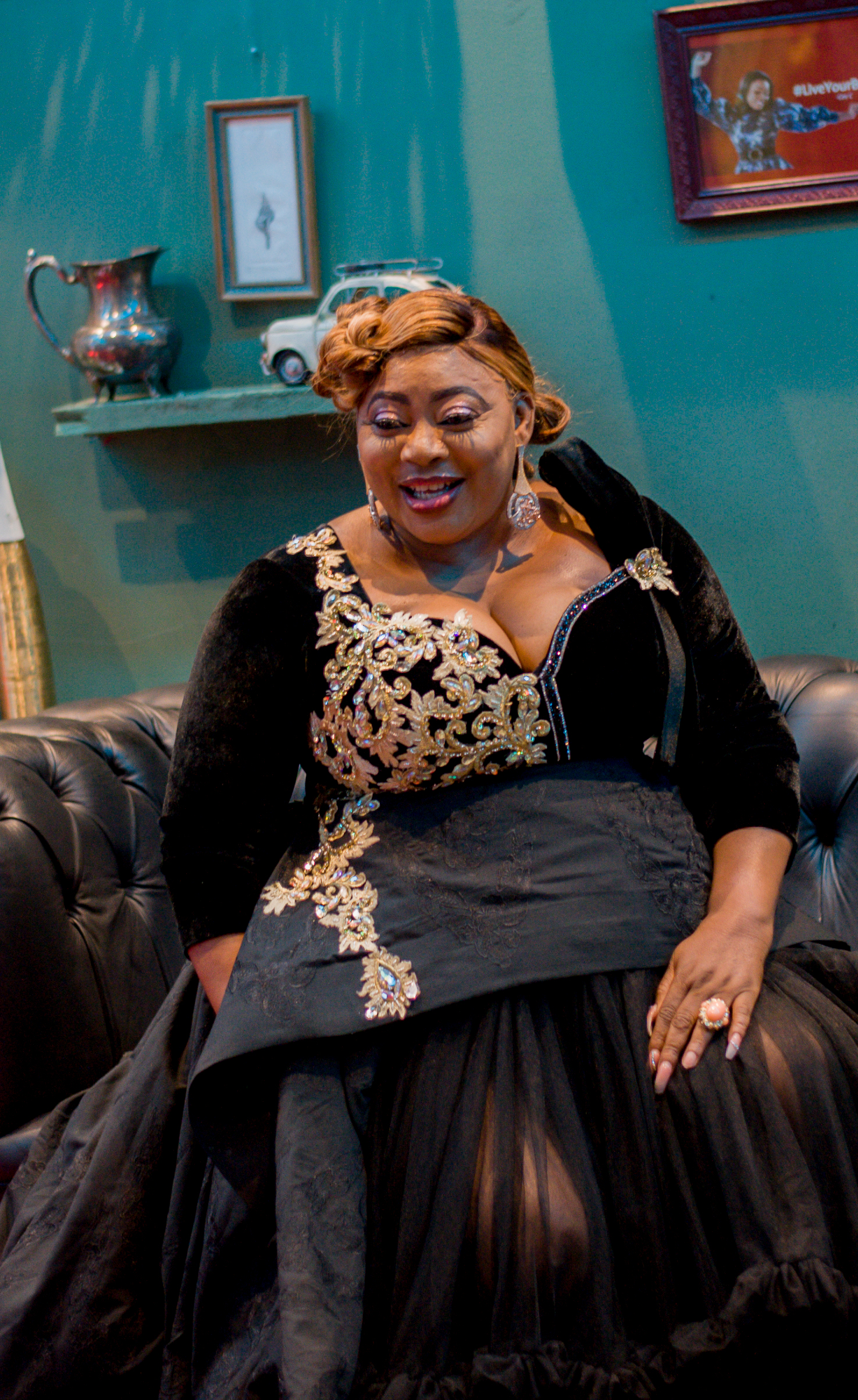 Pictures from AMVCA 2020